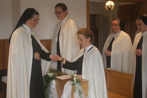 Profession Sisters of our Lady from Mount Carmel